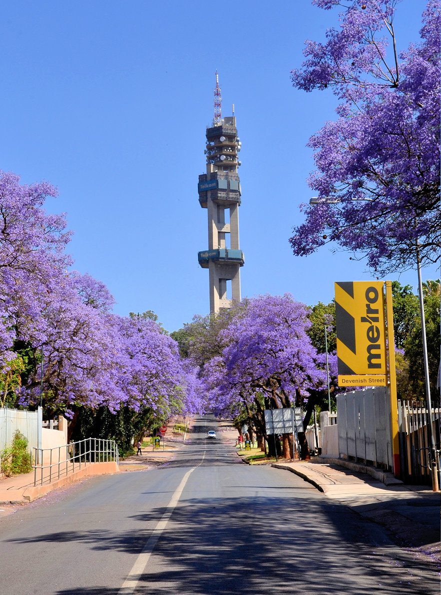 View from Bourke Street in Muckleneuk, Pretoria, South Africa. Lukasrand tower in the background